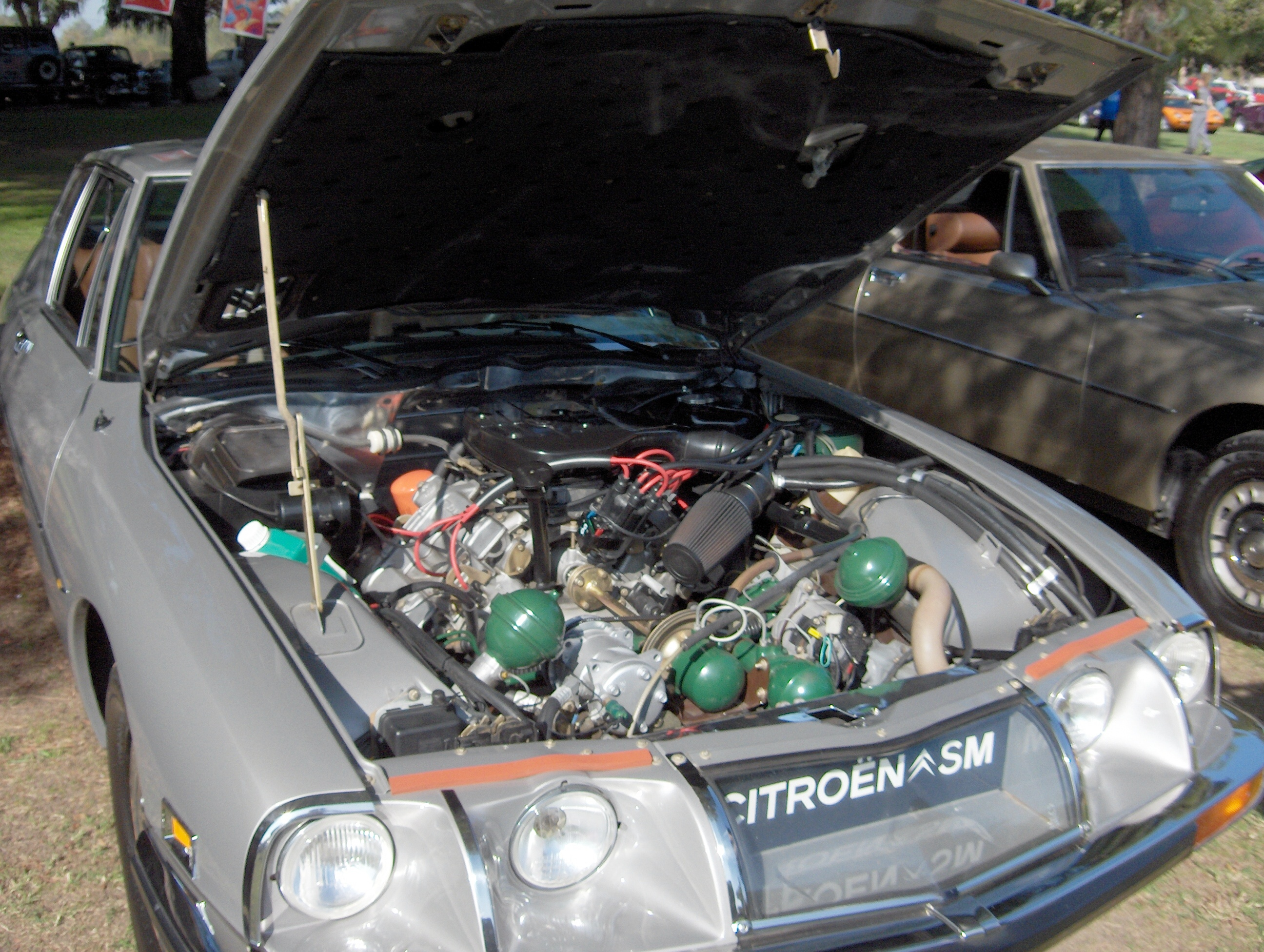 I took this photo in a public location.